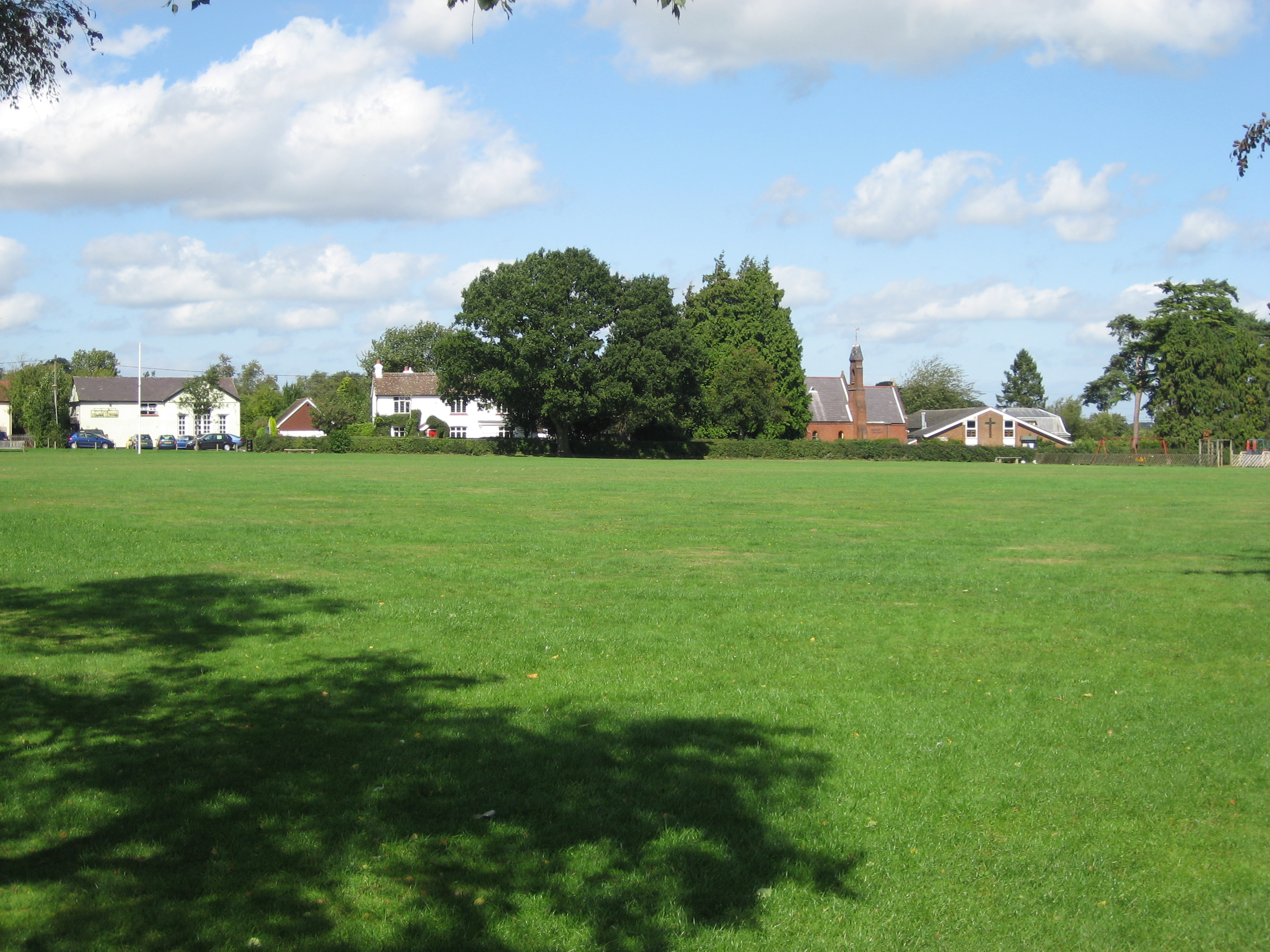 Holmer Green Common looking north